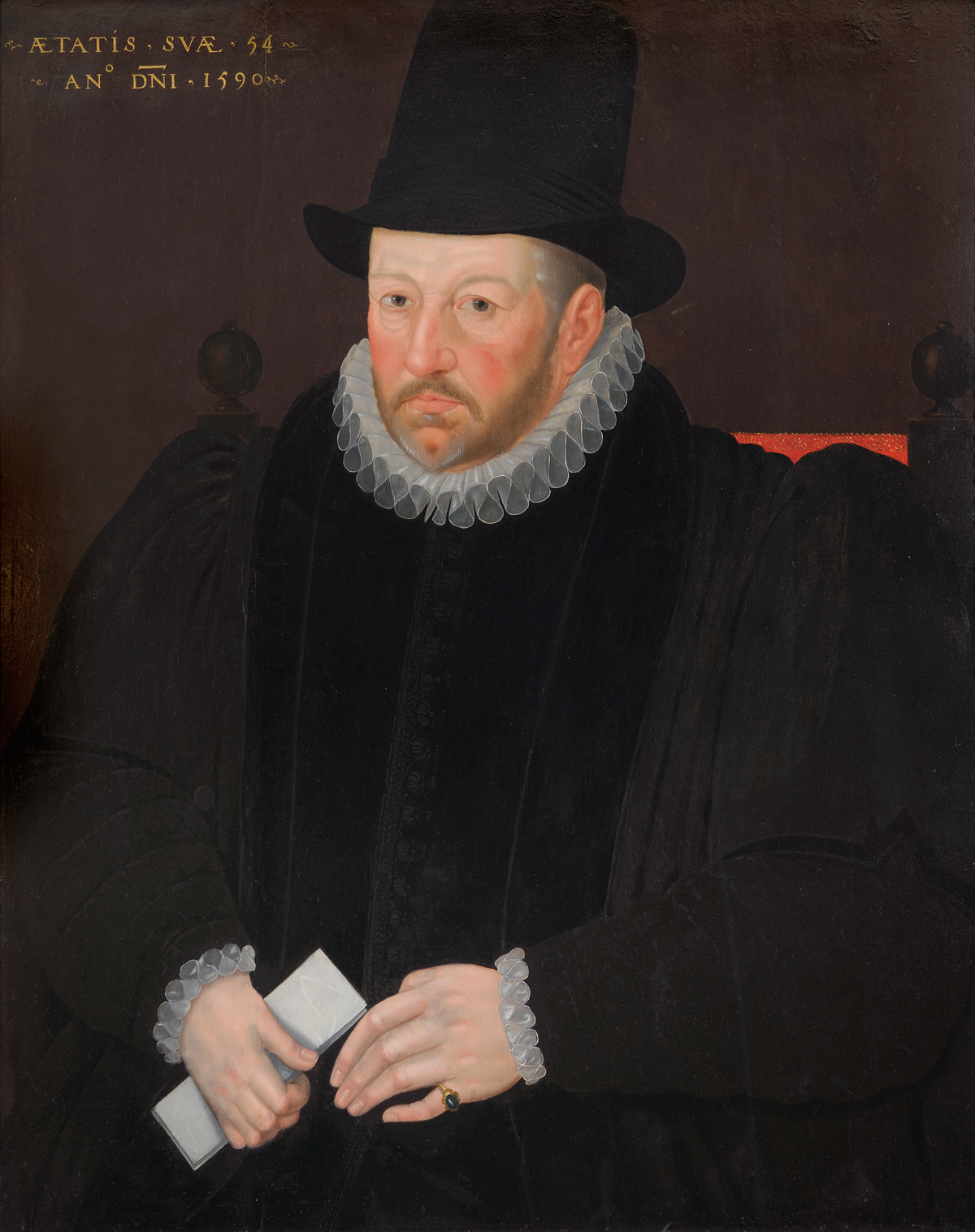 Portrait of Thomas Fanshawe (remembrancer of the exchequer) by Marcus Gheeraerts the younger. Fanshawe (1533-1601) became the Queen’s Remembrancer in October 1568. He was often said to have laid the groundwork for the financial successes of the Fanshawe family. Portrait painted circa 1590. Oil on wood, 89 cm x 73 cm. Courtesy of the collections of Valence House Museum, Dagenham.